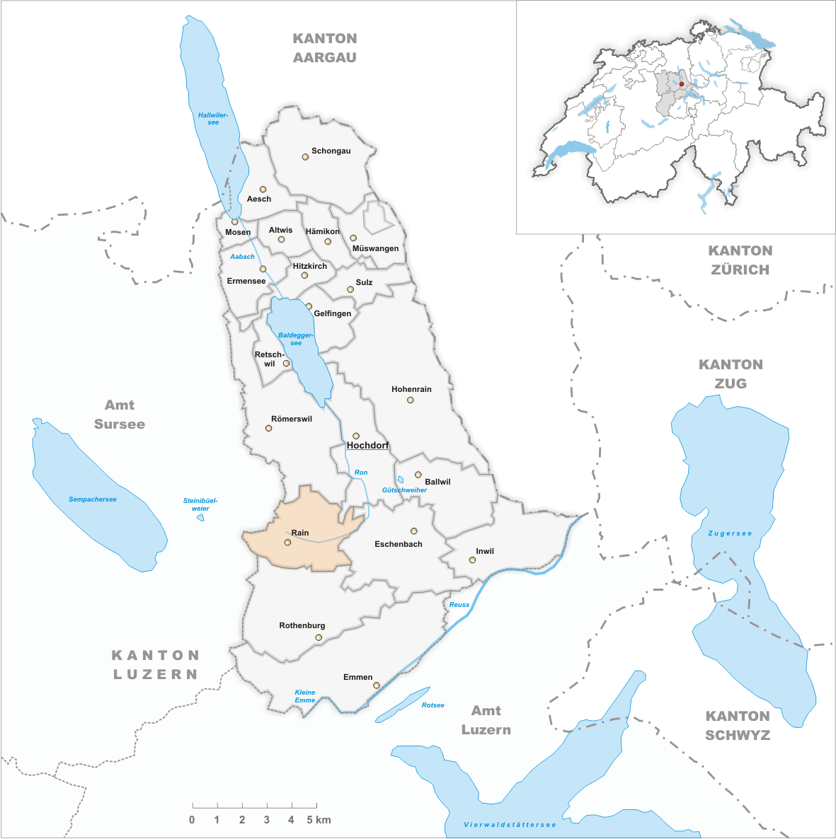 Municipality Rain